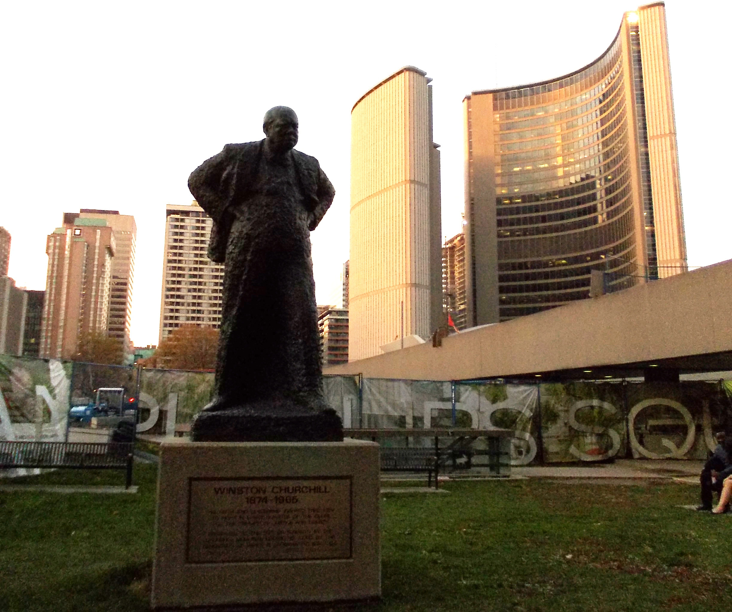 Toronto City Hall and Winston Churchill Monument